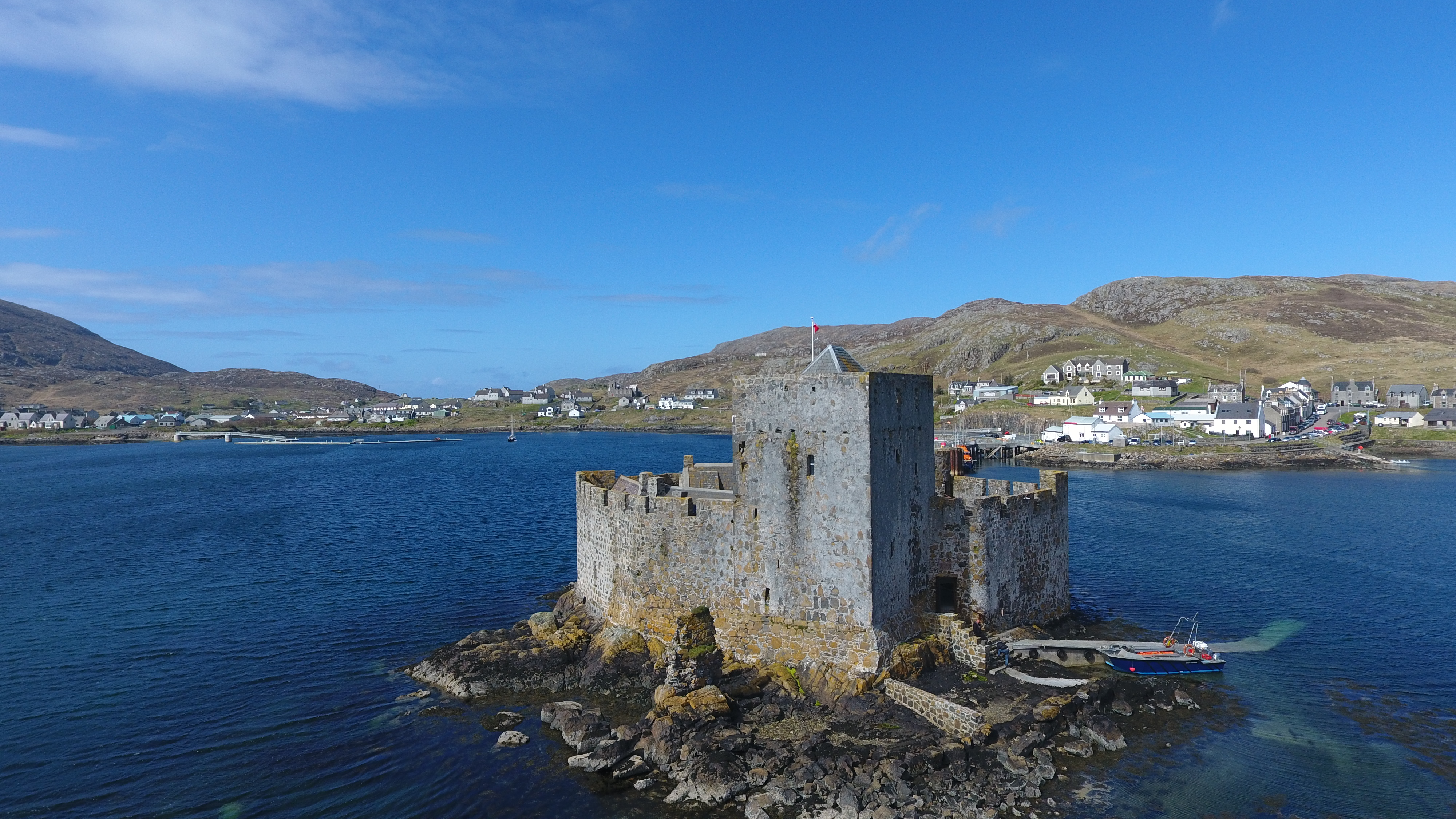 Kisimul castle, Castlebay, Isle of Barra, Outer Hebrides, Scotland, UK